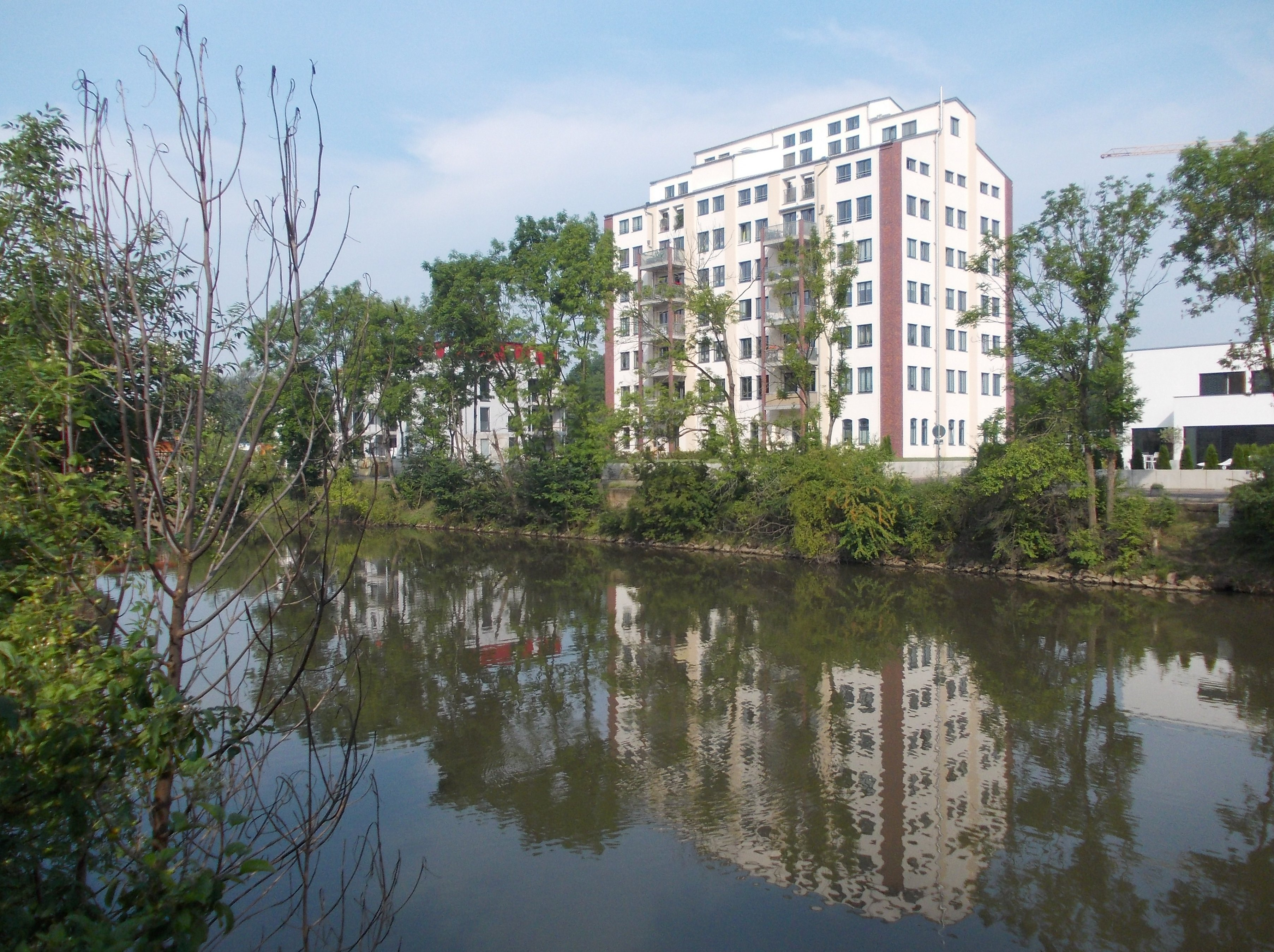 Former port Sophienhafen in Halle/Saale (Saxony-Anhalt), a storehouse converted into a residential building